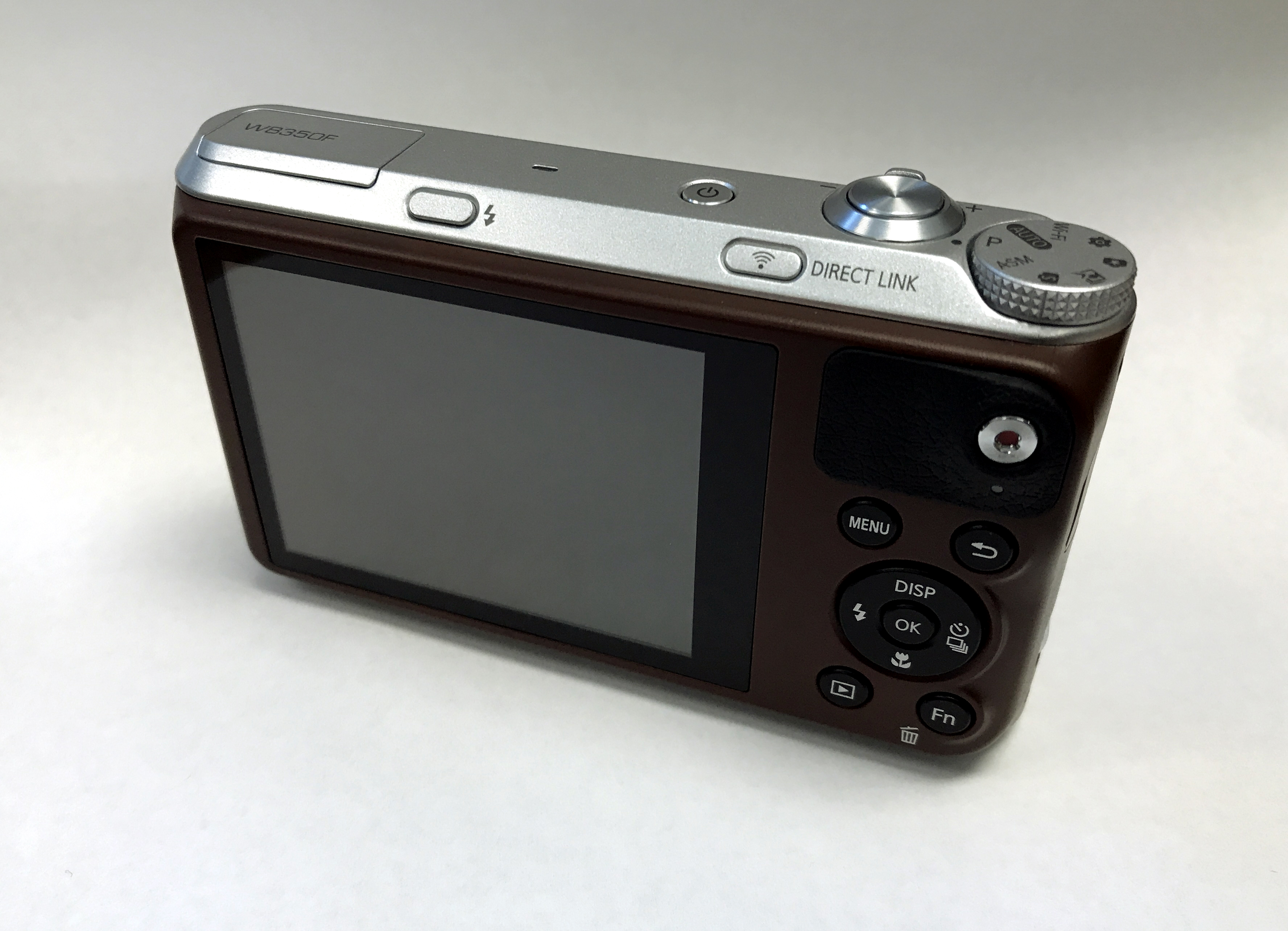 Samsung Digital Smart Camera (WB350 series)